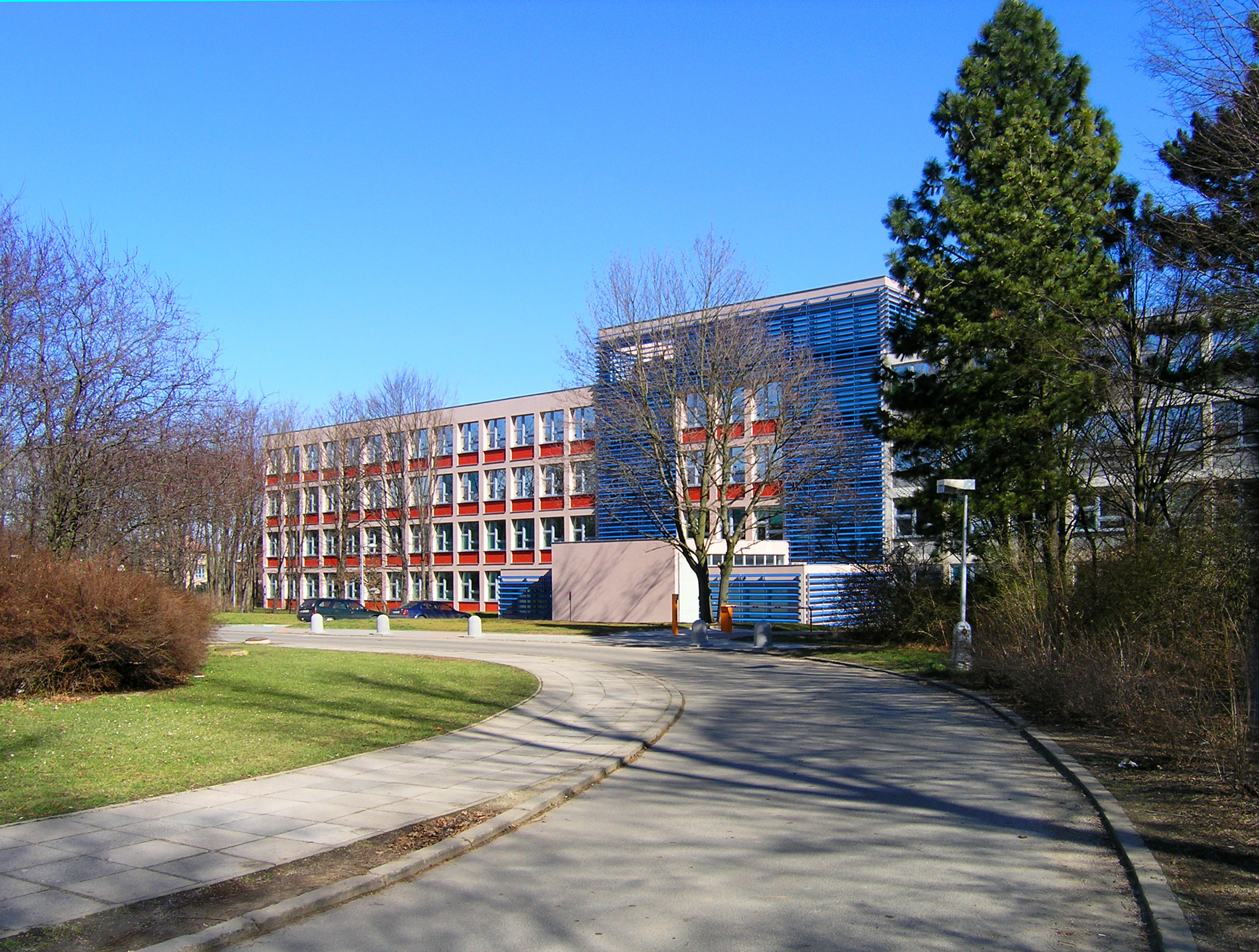 Czech University of Life Sciences Prague in Suchdol, Prague. Faculty of Economics and Management.